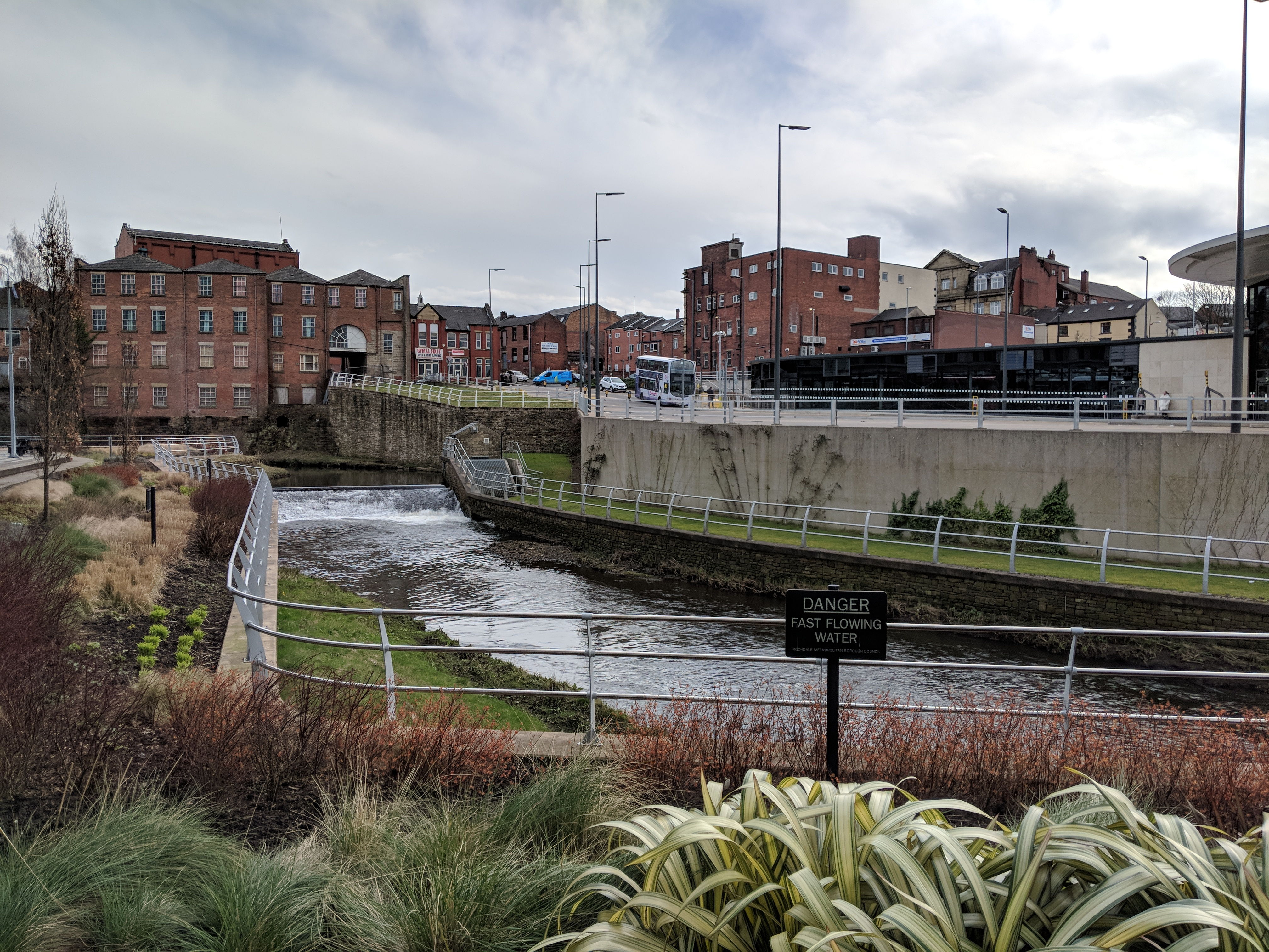 Photograph of the River Roch flowing between Number One Riverside and Rochdale Bus Station